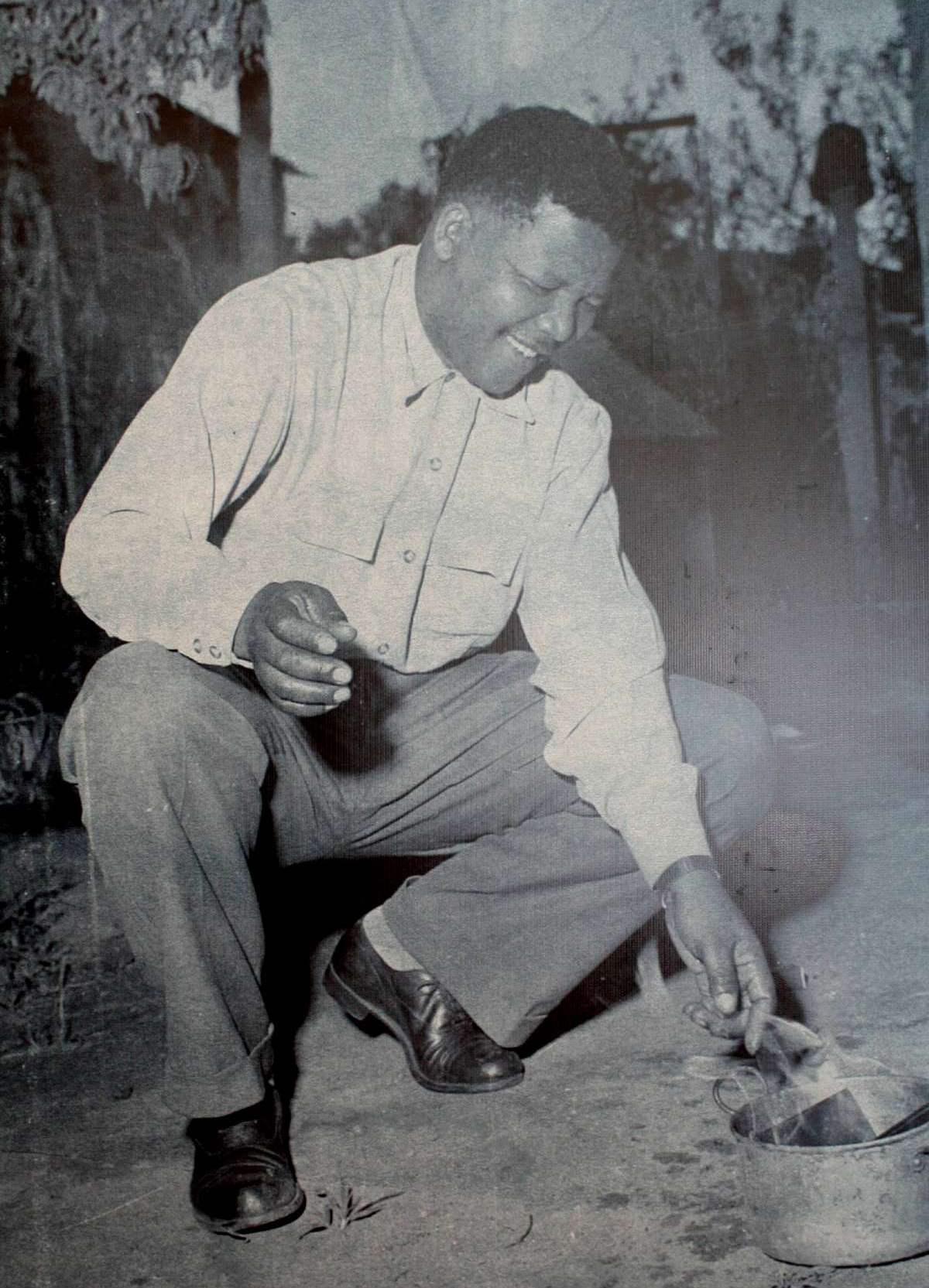 Nelson Mandela burning the pass that all black South Africans were required to carry under the apartheid regime. This was a political act of defiance and carried out in front of press.